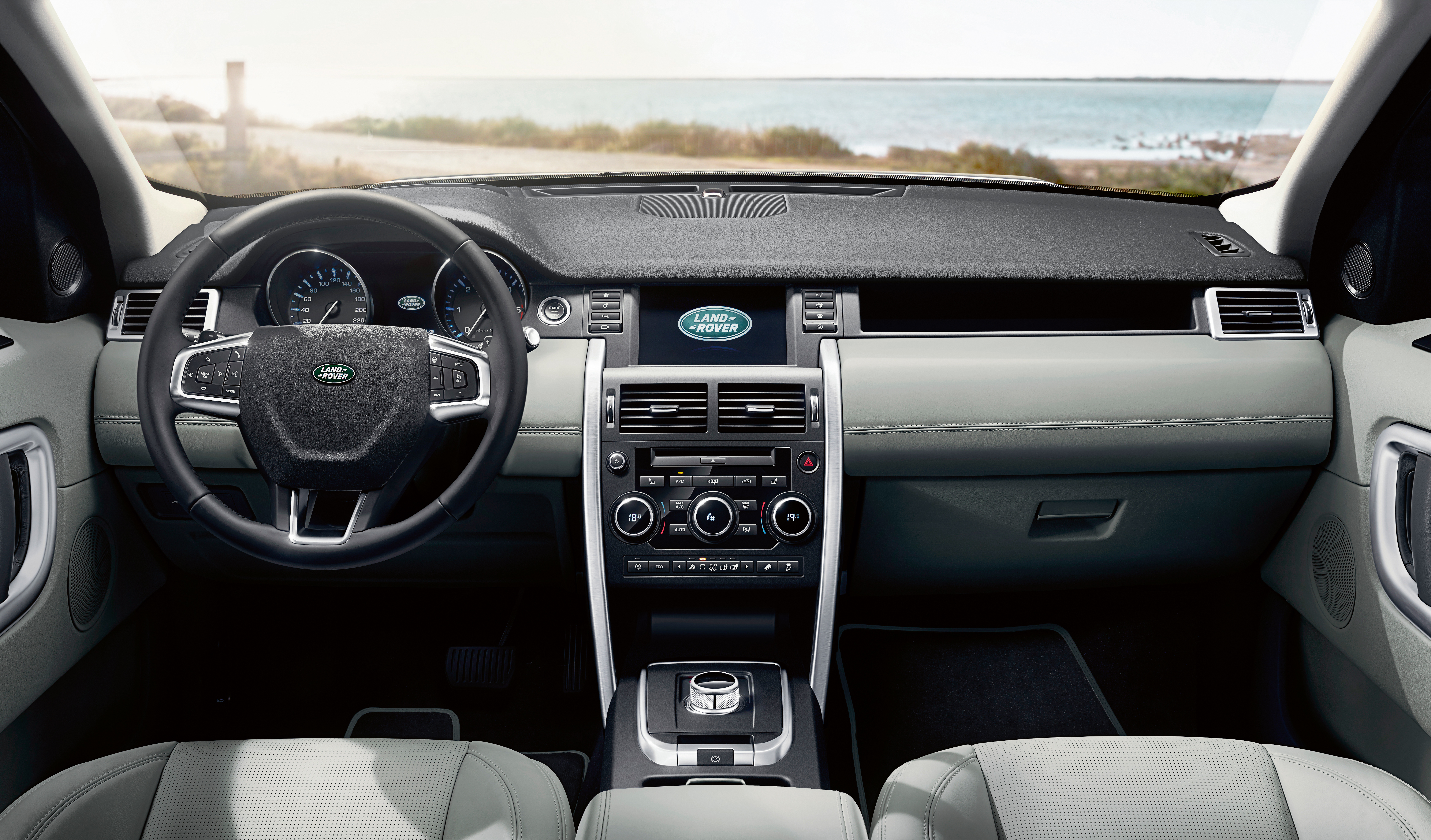 Land Rover has revealed the new Discovery Sport, the world’s most versatile and capable premium compact SUV. The first member of the new Discovery family, Discovery Sport, features 5+2 seating in a footprint no larger than existing 5-seat premium SUVs. Read all about it on